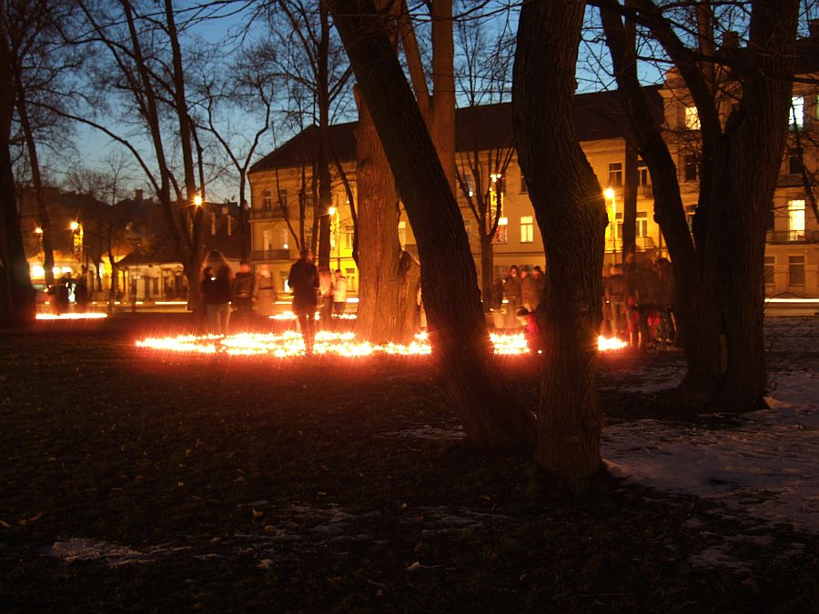 Spring Equinox celebrations in Vilnius (Lithuania)